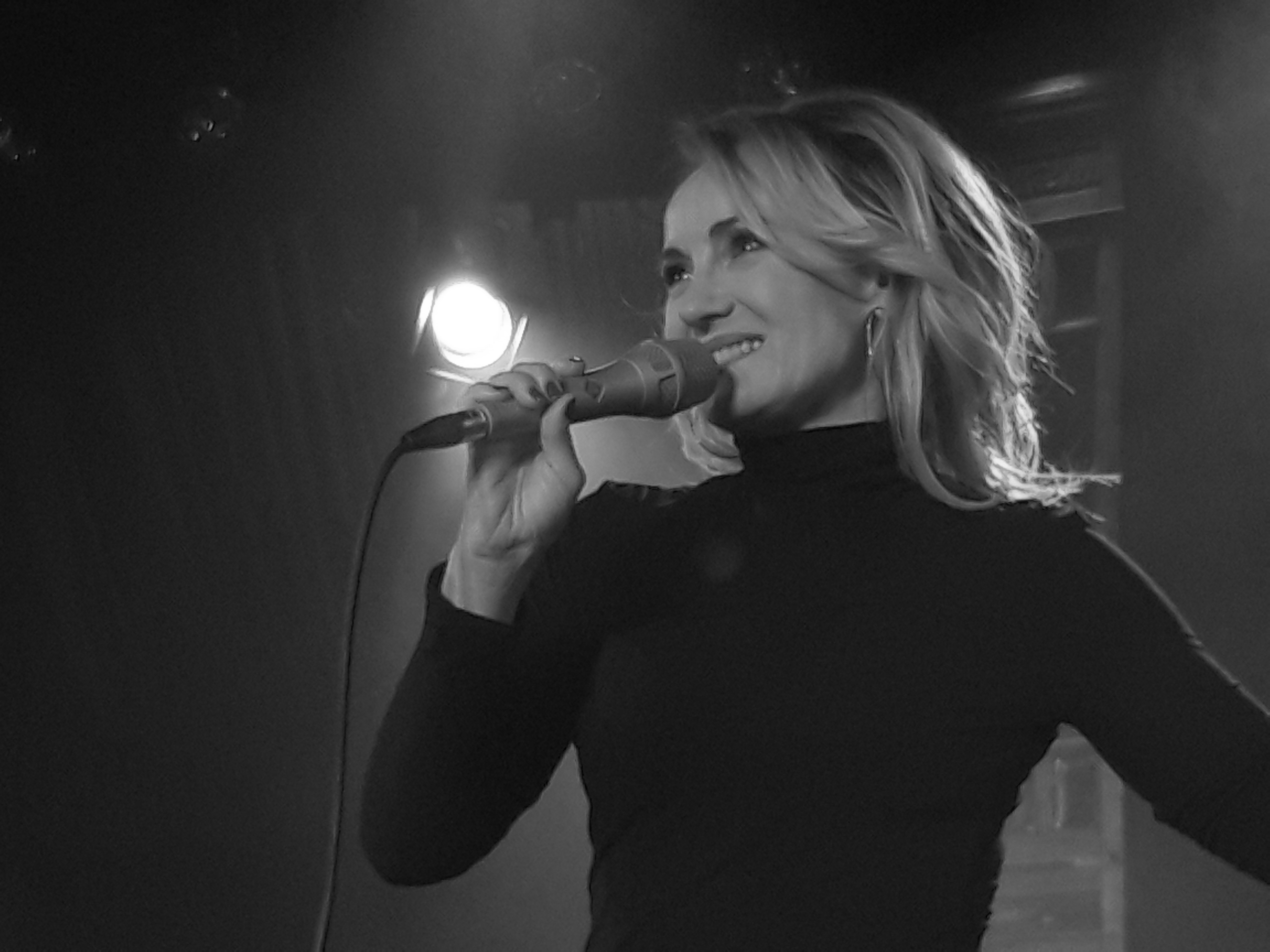 German singer and actress Katharine Mehrling at her Conncert at the Bar jeder Vernunft in Berlin on November 6th 2018.